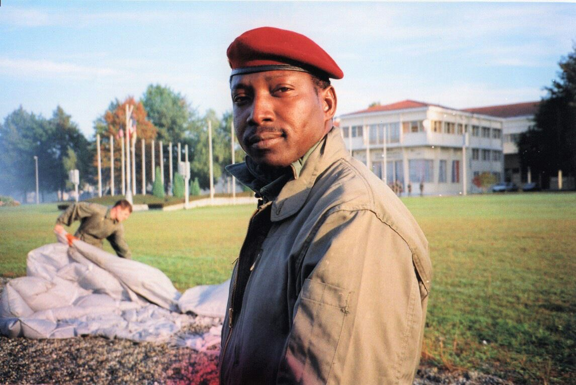 Col.Major Fatogoma Sountoura